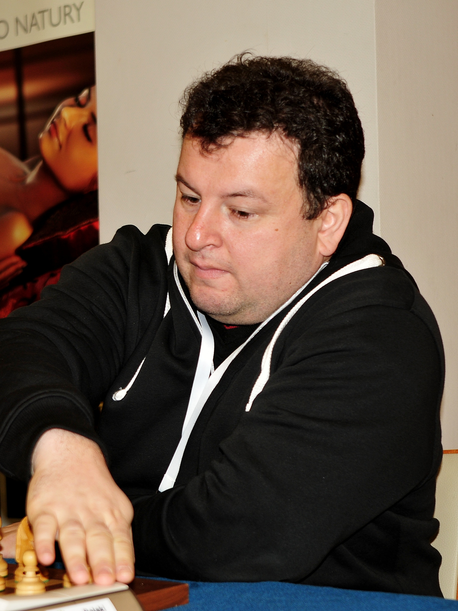 GM Daniel Fridman, European Chess Team Championship Warsaw 2013